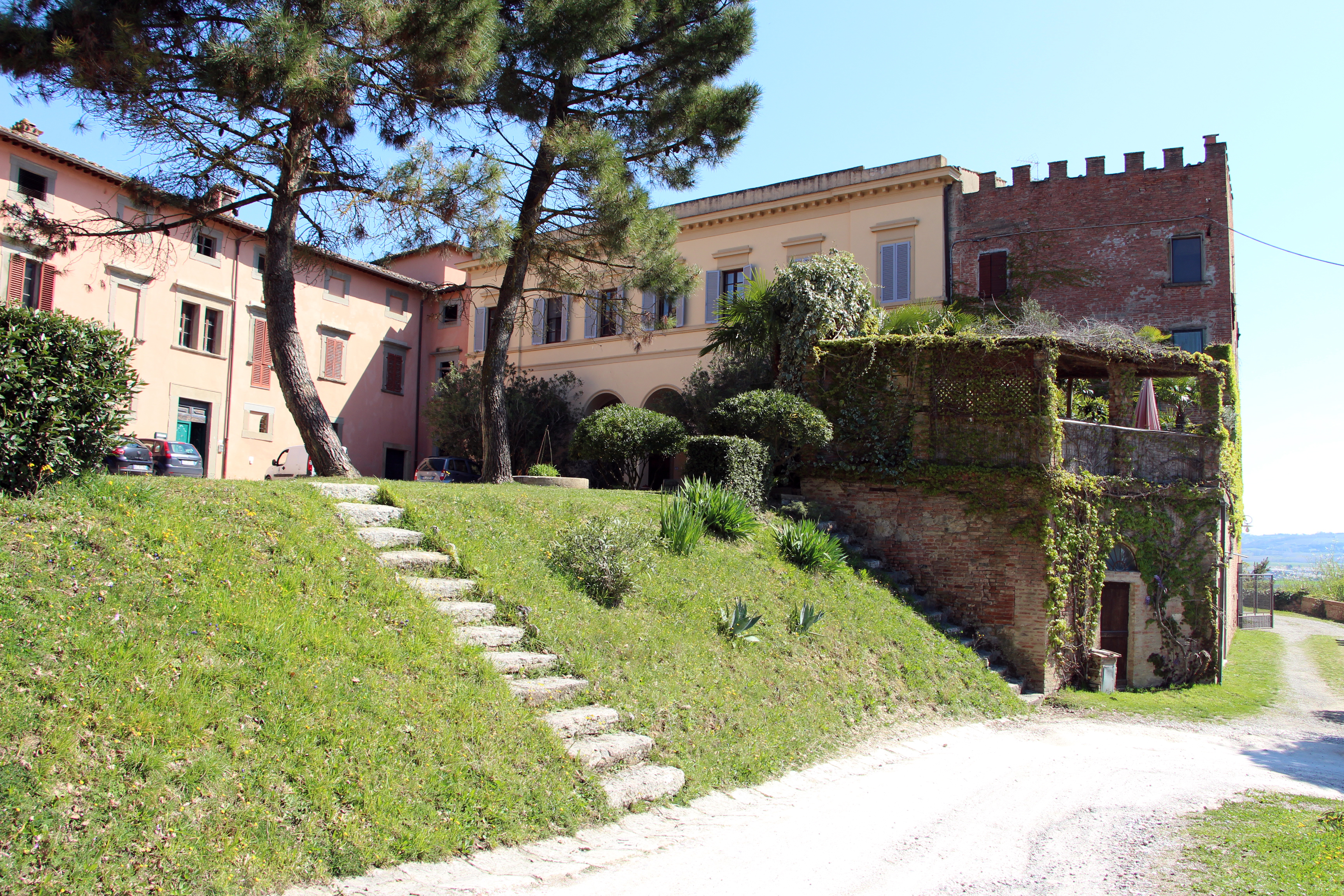 Villa Baciocchi (Capannoli)